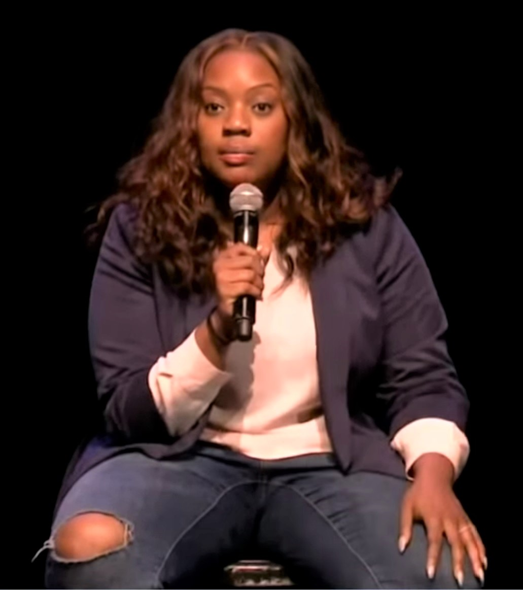 Road to a Green New Deal Tour stop feat. AOC & Bernie Sanders! - LiveStream Rhiana Gunn-Wright, policy lead for the GND, New Consensus Democratic Party of Oregon 2018 Platform.